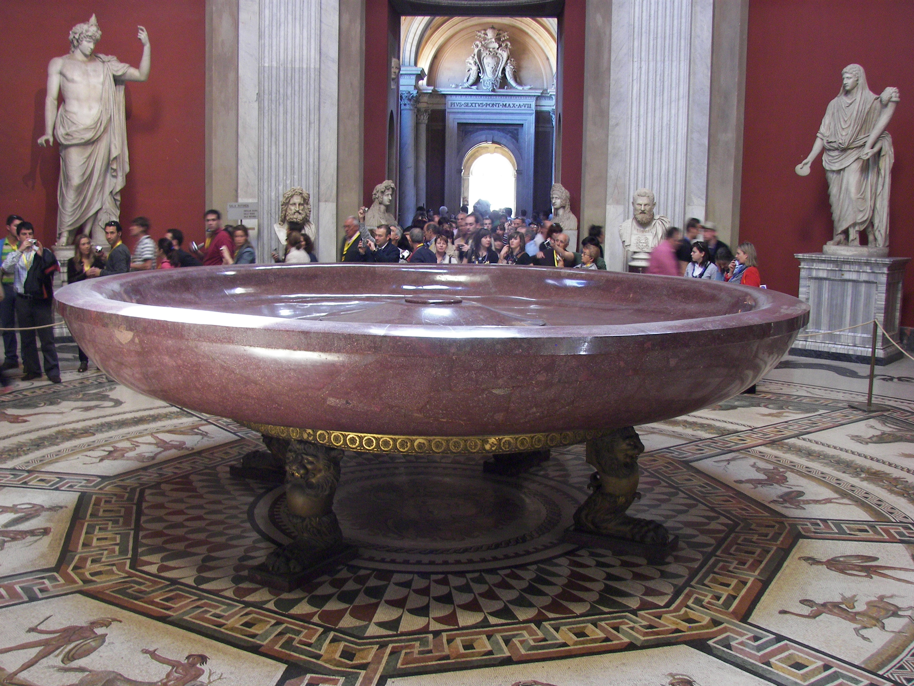 Big porphyr labrum, found in the Baths of Titus (Rome), now in the middle of the round room area of Museo Pio-Clementino.